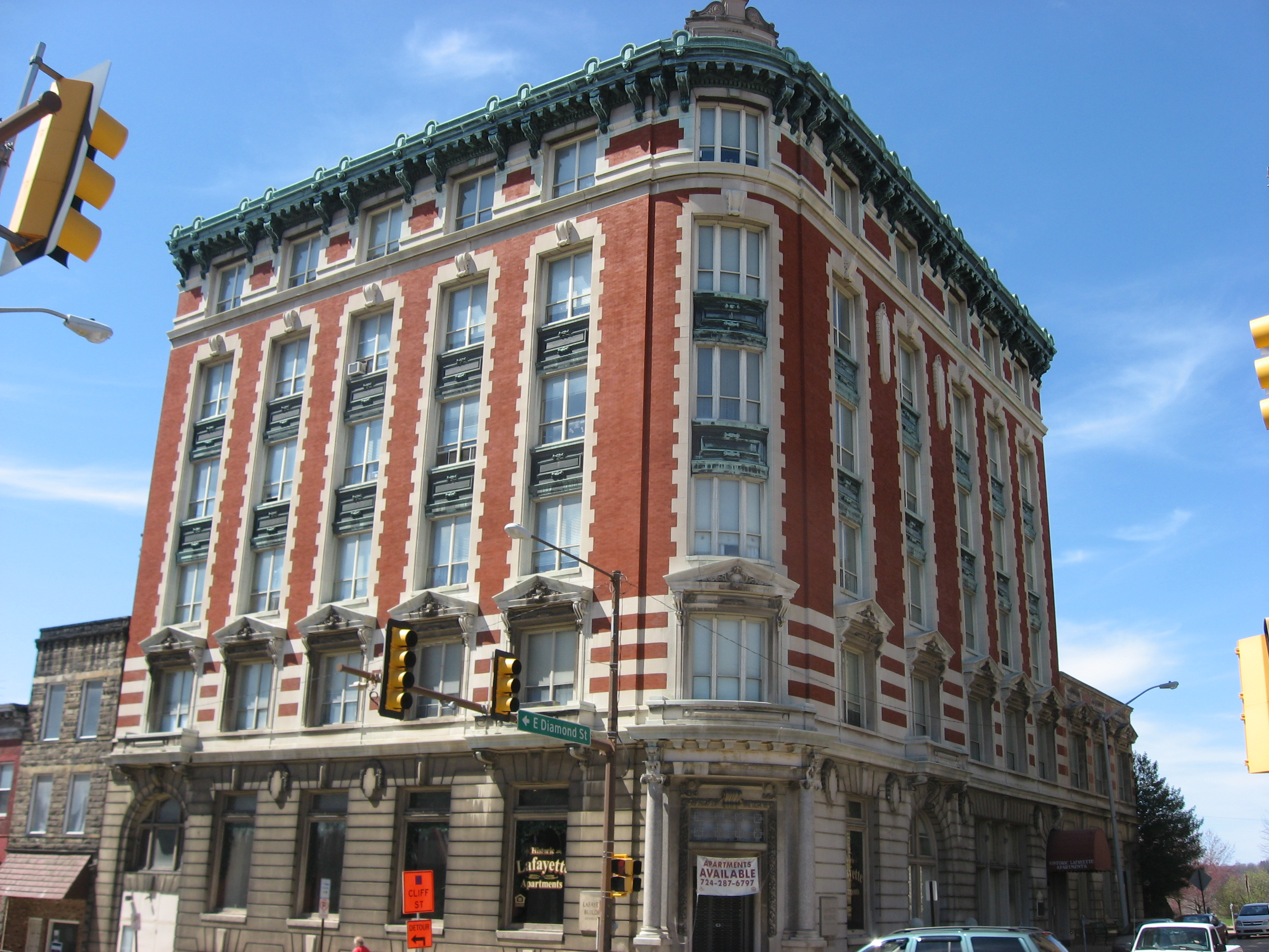 Front of the Butler County National Bank, located at 302 S. Main Street in Butler, Butler County, Pennsylvania, United States. Built in 1903, it is listed on the National Register of Historic Places, and it lies in the heart of the Register-listed Butler Historic District. It is now an apartment building.